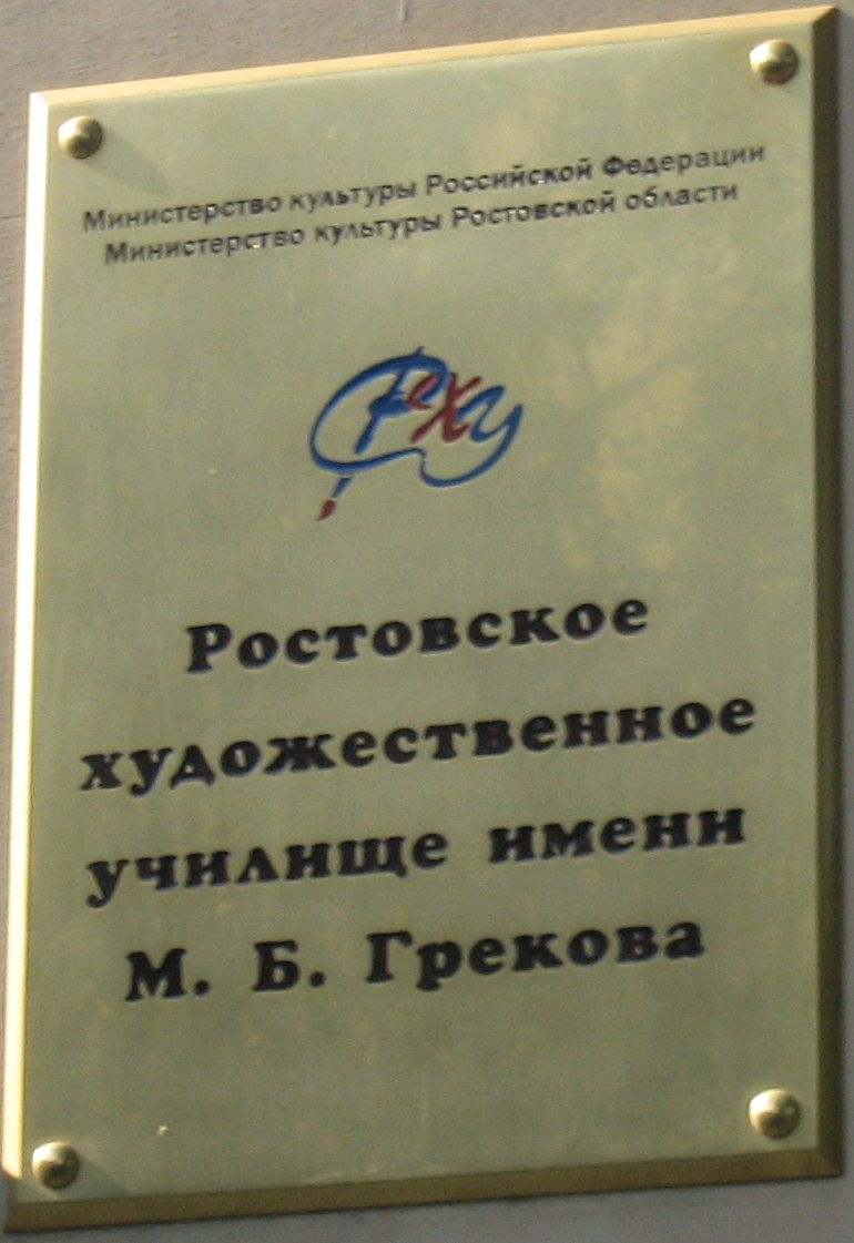 (Rostov-on-Don)